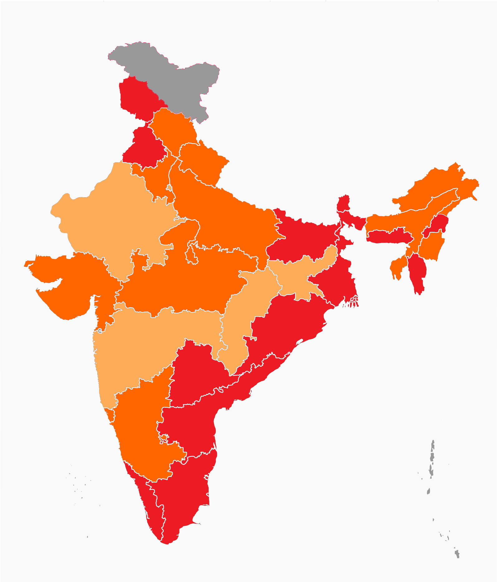 States with a chief minister from the Bharatiya Janata Party (BJP). States which had a chief minister from the BJP. States which which did not have/had a chief minister from the BJP. Union territories without a state government.